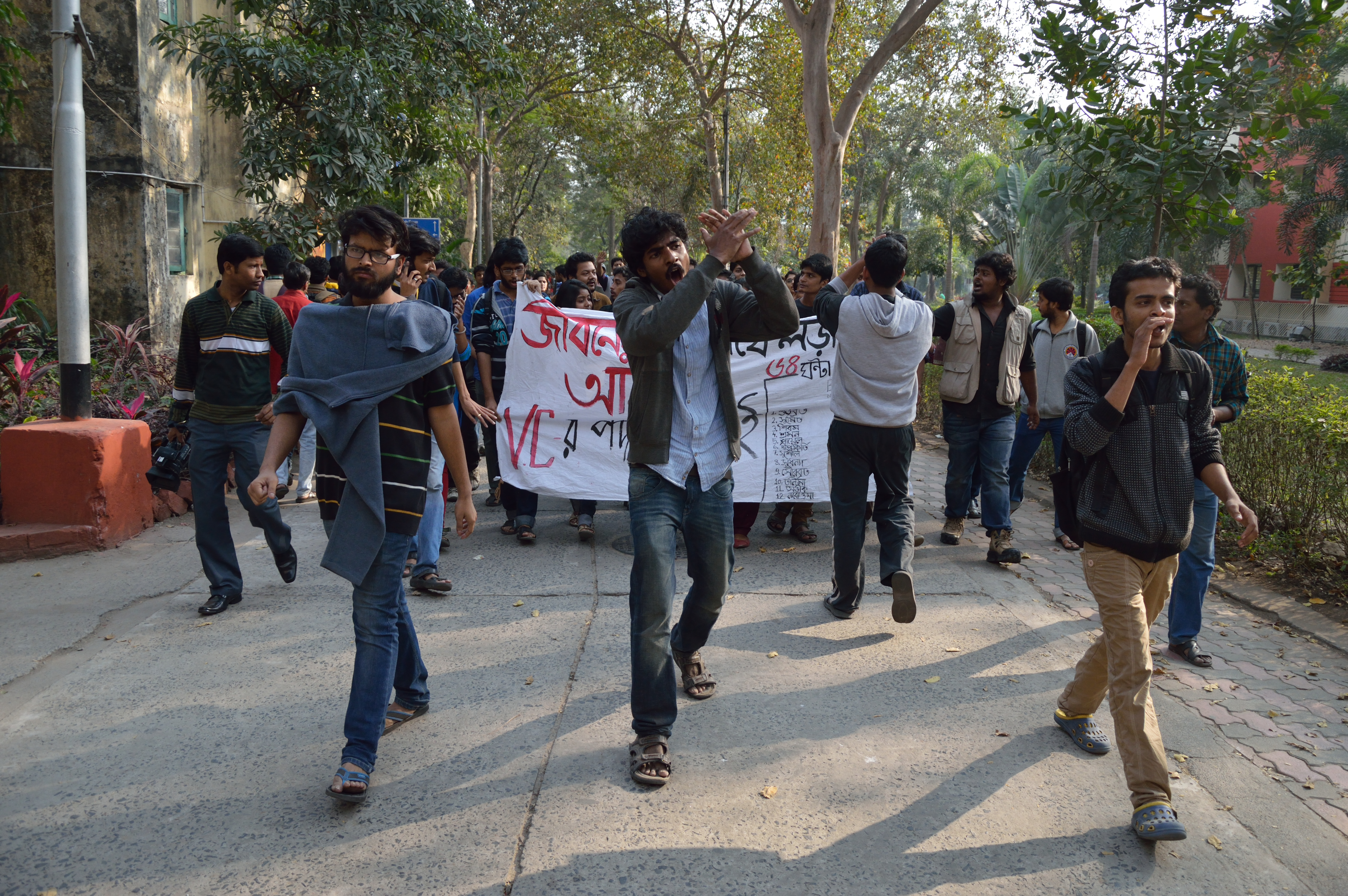 Students protesting by rally against the Vice Chancellor Prof. Abhijit Chakrabarti, at the Jadavpur University campus, Kolkata.